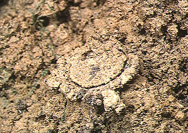 Burrow of Ryuthela tanikawai from Okinawa.